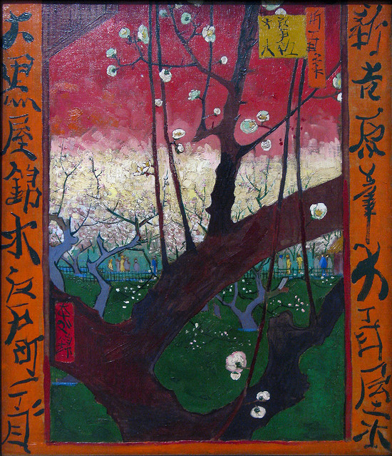 Flowering Plum Tree